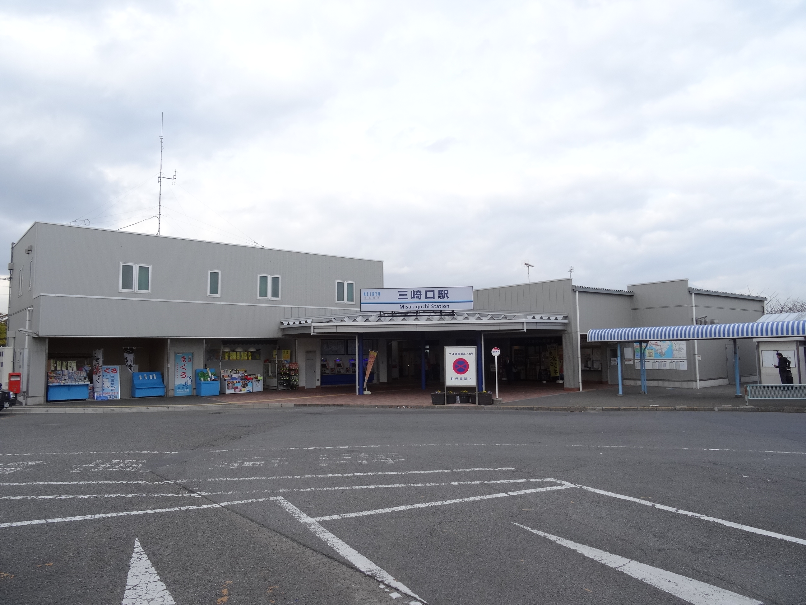 Misakiguchi Station